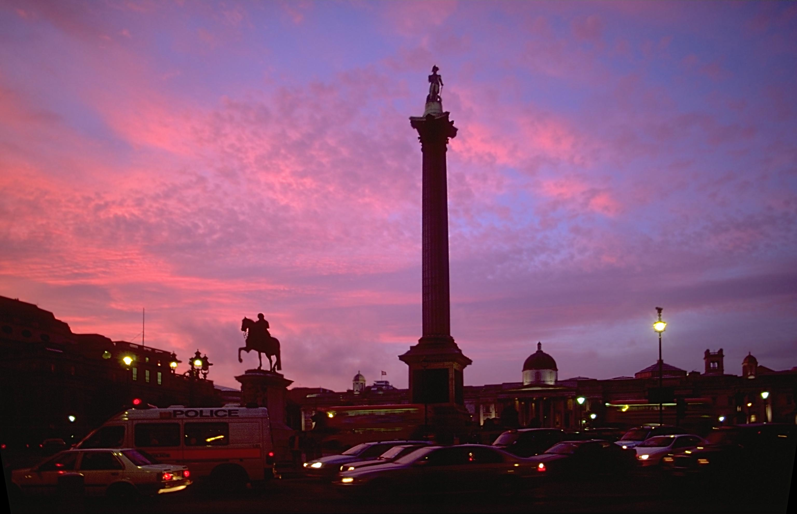 Trafalgar Square at evening Photo was taken using the following technique: Film: Fuji Velvia Lens: 2.8/28 Filter: none Body: Minolta Dynax 7 Support: None